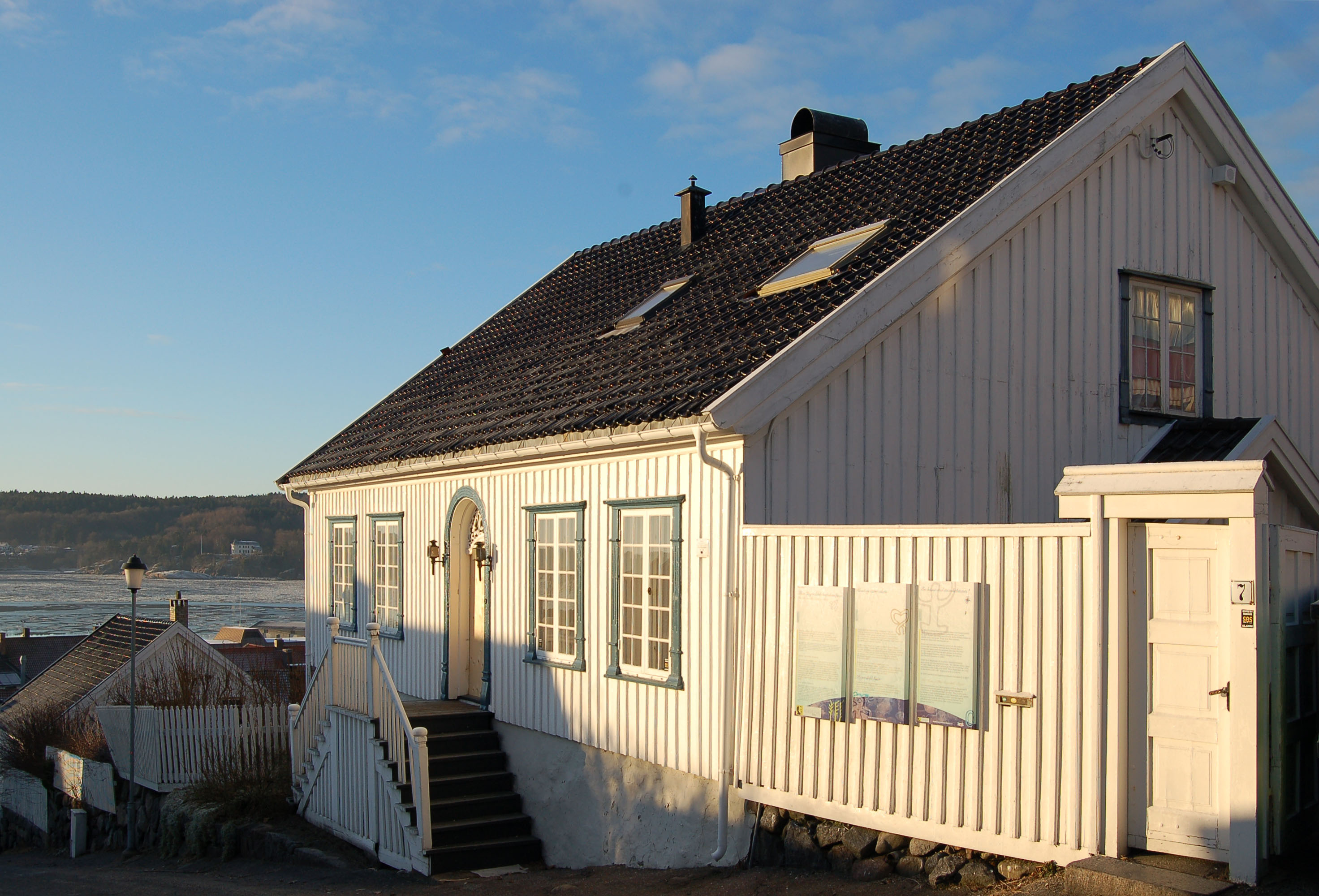 The house where young Thor Heyerdahl lived. Original file was slightly undistorted.